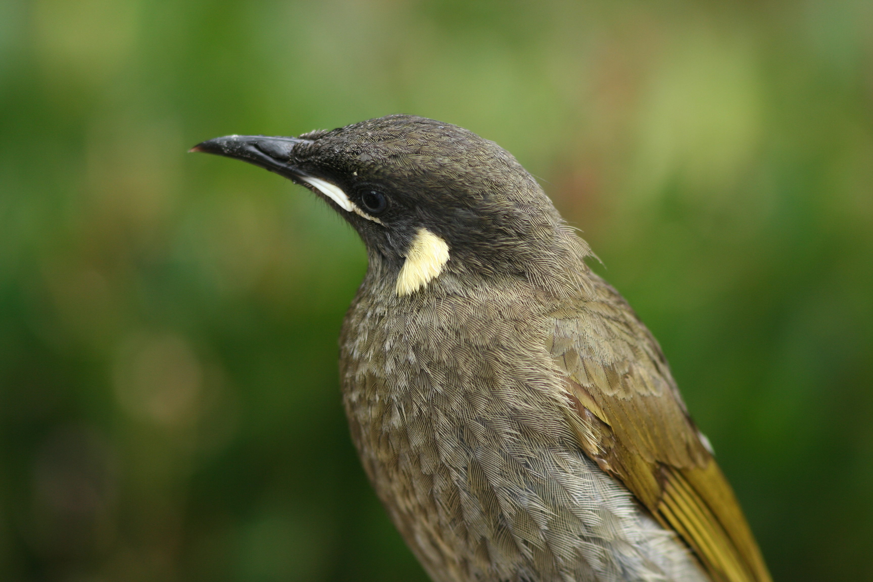 Lewin's Honeyeater, Meliphaga lewinii; wild bird